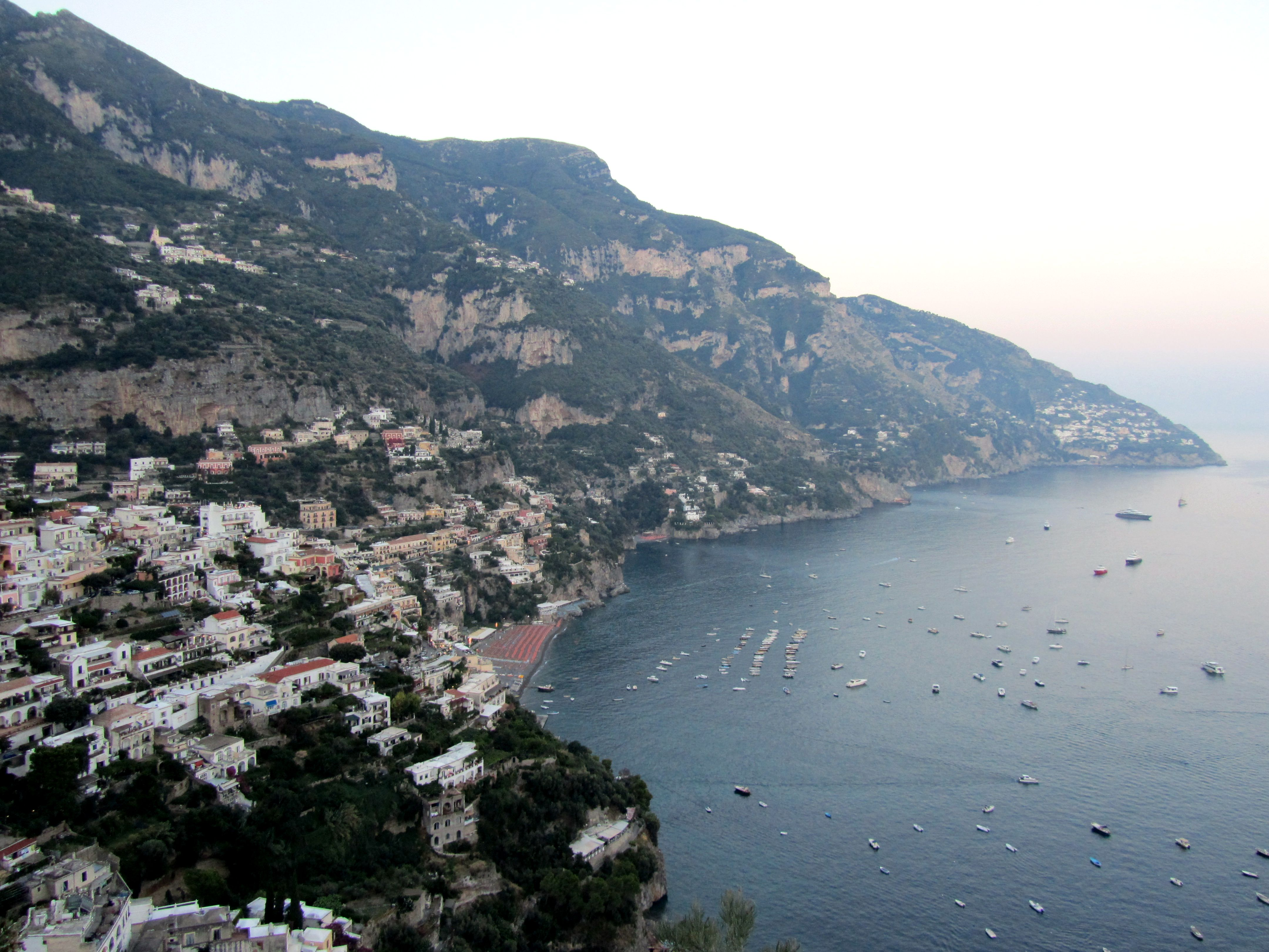 Amalfitan Coast - View of Positano.